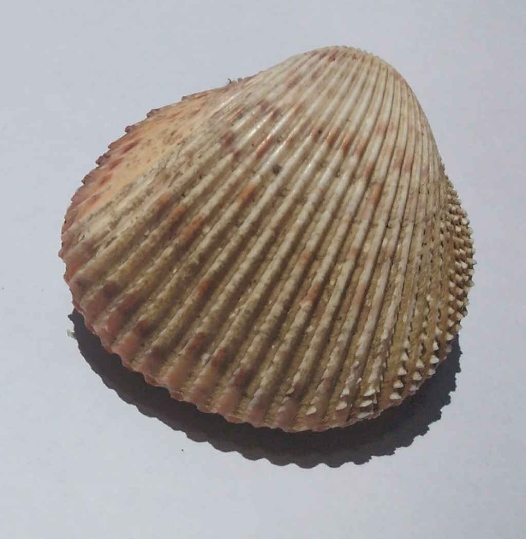 An individual of Dallocardia muricata (Linnaeus, 1758)[1] - Cardium muricatum Linnaeus, 1758[2] - scientific name unaccepted - Trachycardium muricatum (Linnaeus, 1758)[3] - scientific name unaccepted - seashell from Brazil; Peres beach, Ubatuba; northern coast of São Paulo state (april 25, 2000).